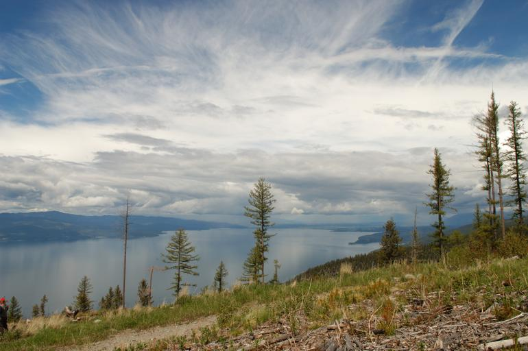 Photograph © 2005 Matthew MacManes. Source: CalPhotos, Berkeley Digital Library Project Originally: [1] Permissions: See talk page.